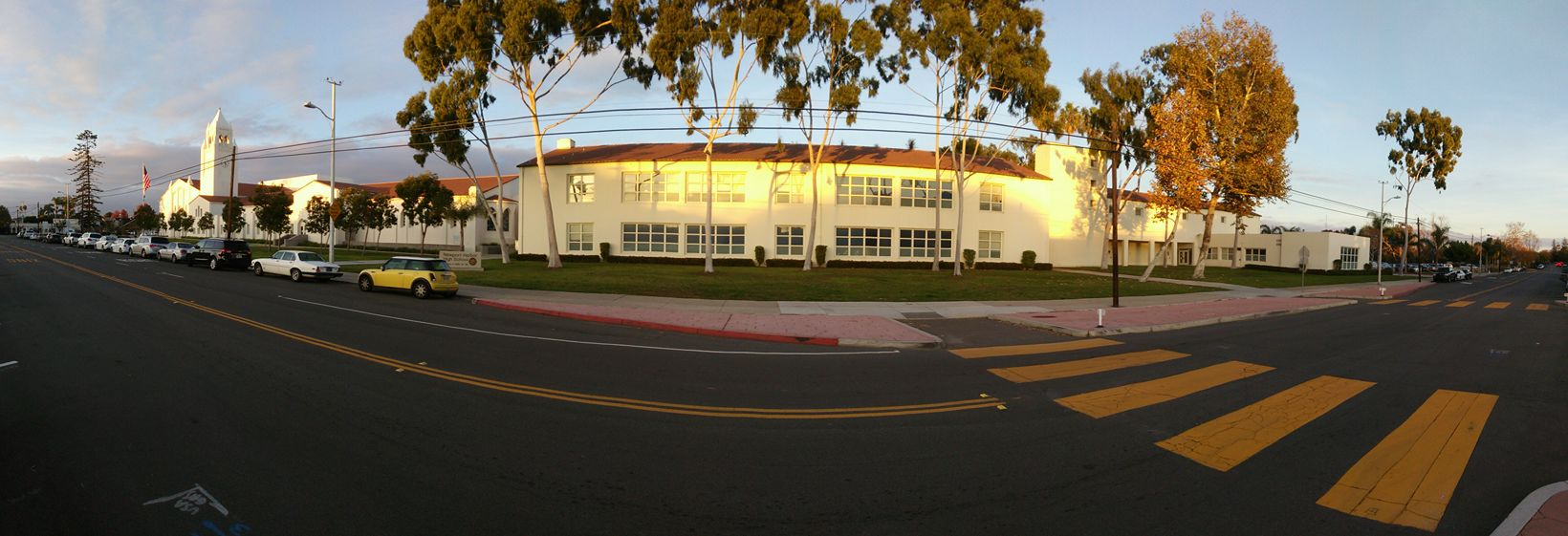 The picture was taken with a ZTE Cell Phone. Taken on December 11, 2016 at 4:30pm